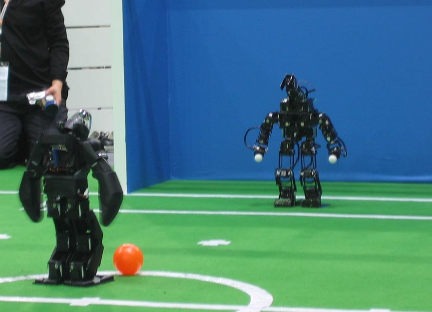 RoboCup.